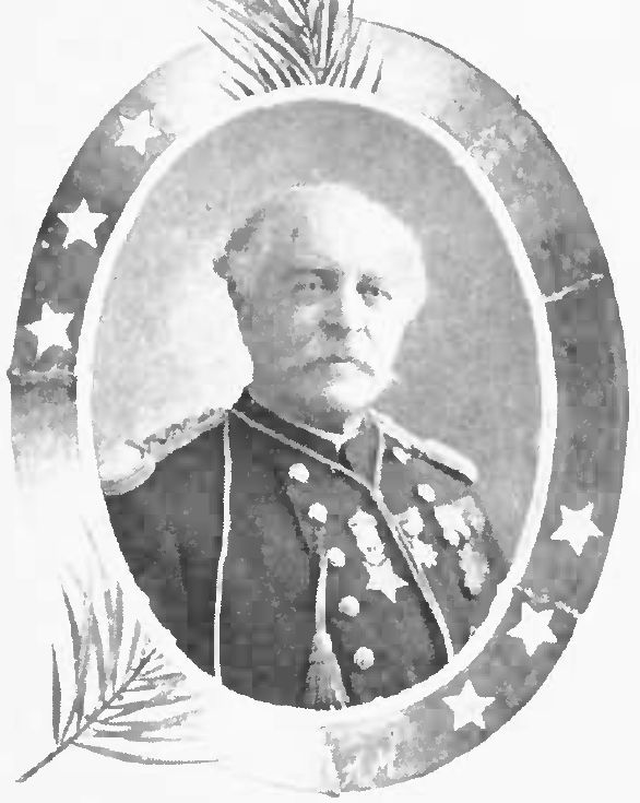 United States Army Colonel James S. Casey received the Medal of Honor for his actions with the 5th Infantry Regiment in the Indian Wars.